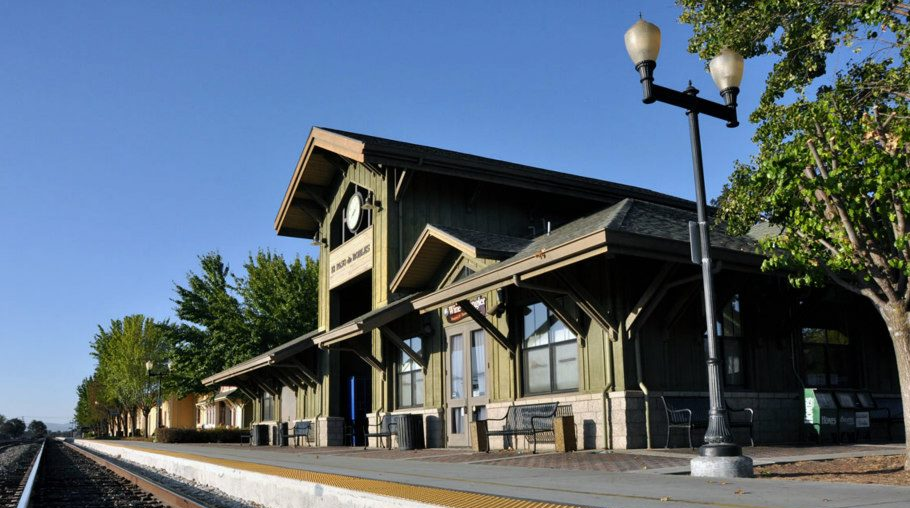 Amtrak is serviced by the Paso Robles train station located on Pine Street.